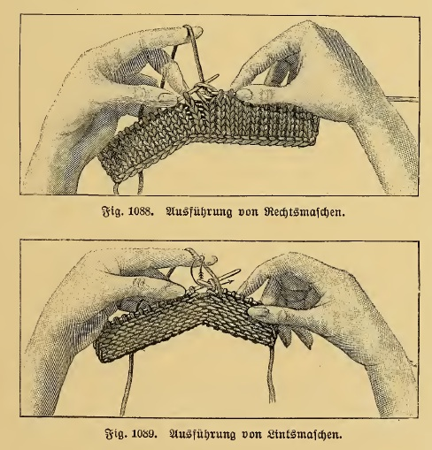 Knit and purl stitches